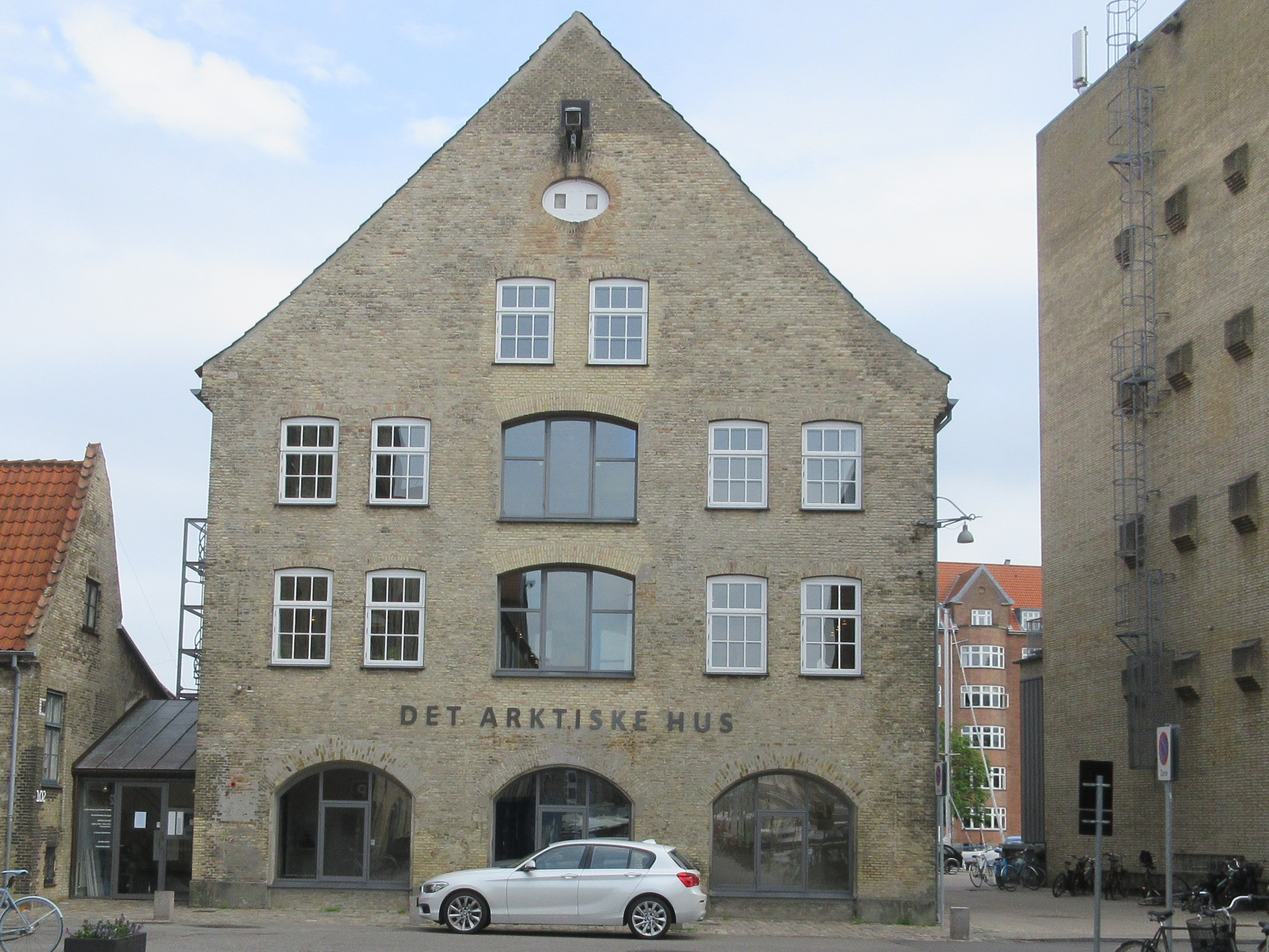 Det Arktiske Hus in Copenhagen, Denmark